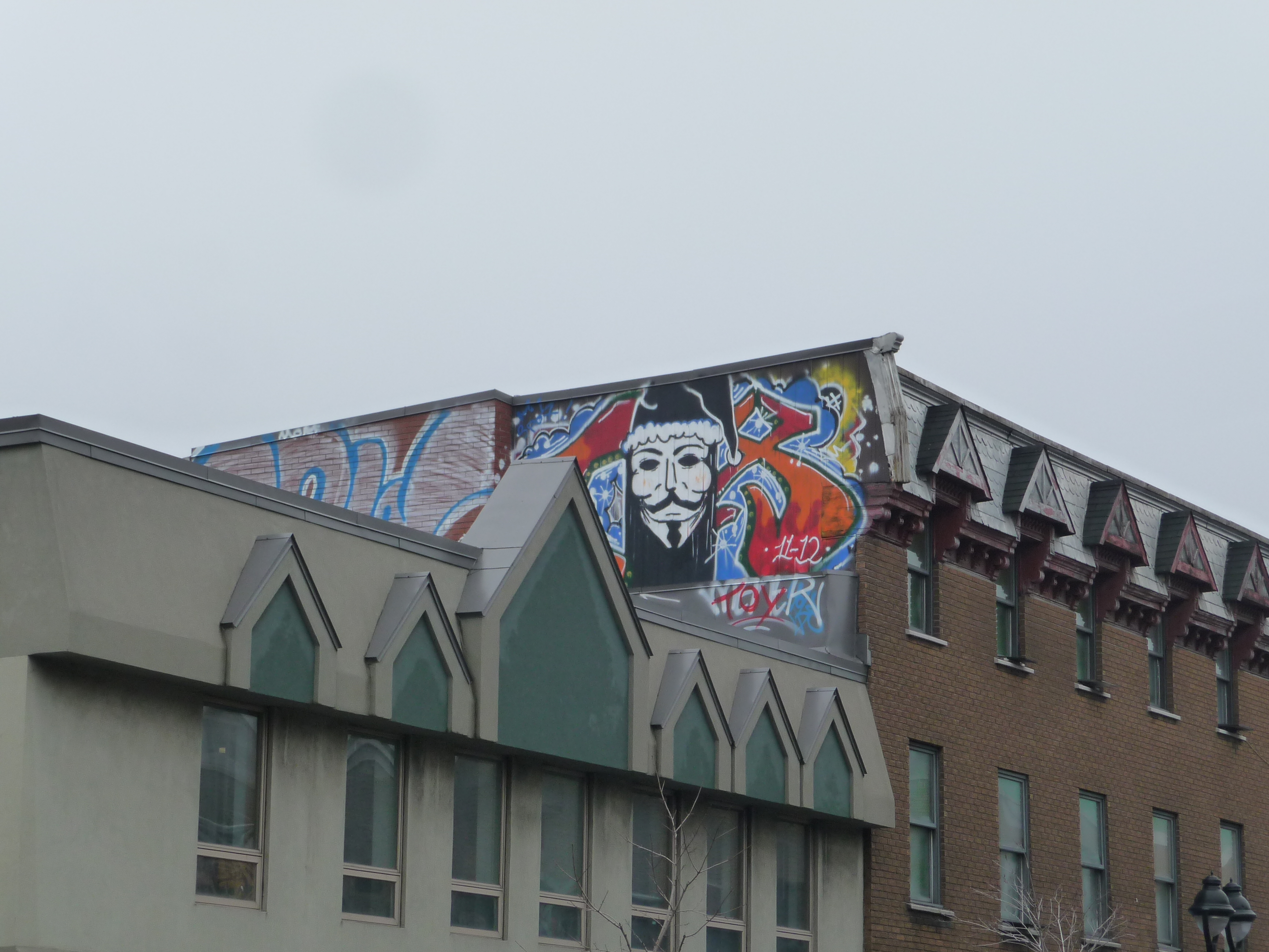 A photograph of graffiti found on a building facade in the city of Montreal in the country of Canada. This photo is to be used in relation to Gunpowder Plot in popular culture and Guy Fawkes mask. Other information This photo is for the public domain.